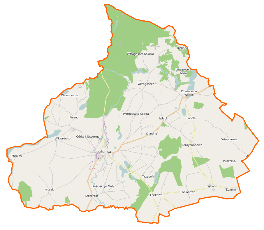 Map of Gmina Łobżenica, Poland This map of Łobżenica (gmina) was created from OpenStreetMap project data, collected by the community. This map may be incomplete, and may contain errors. Don't rely solely on it for navigation. Border coordinates53.367017.1339←↕→17.445053.2048